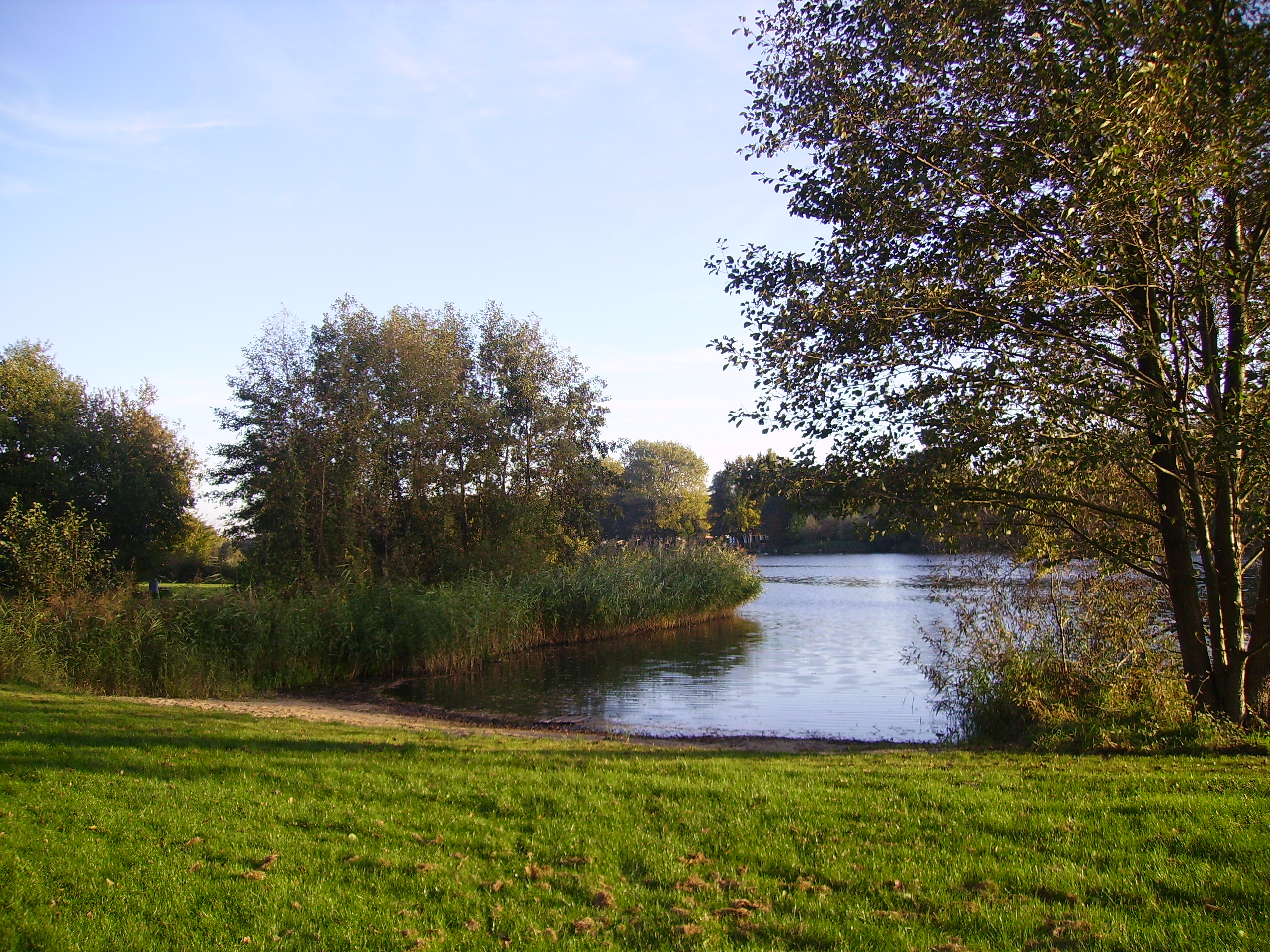 Neetze (river)